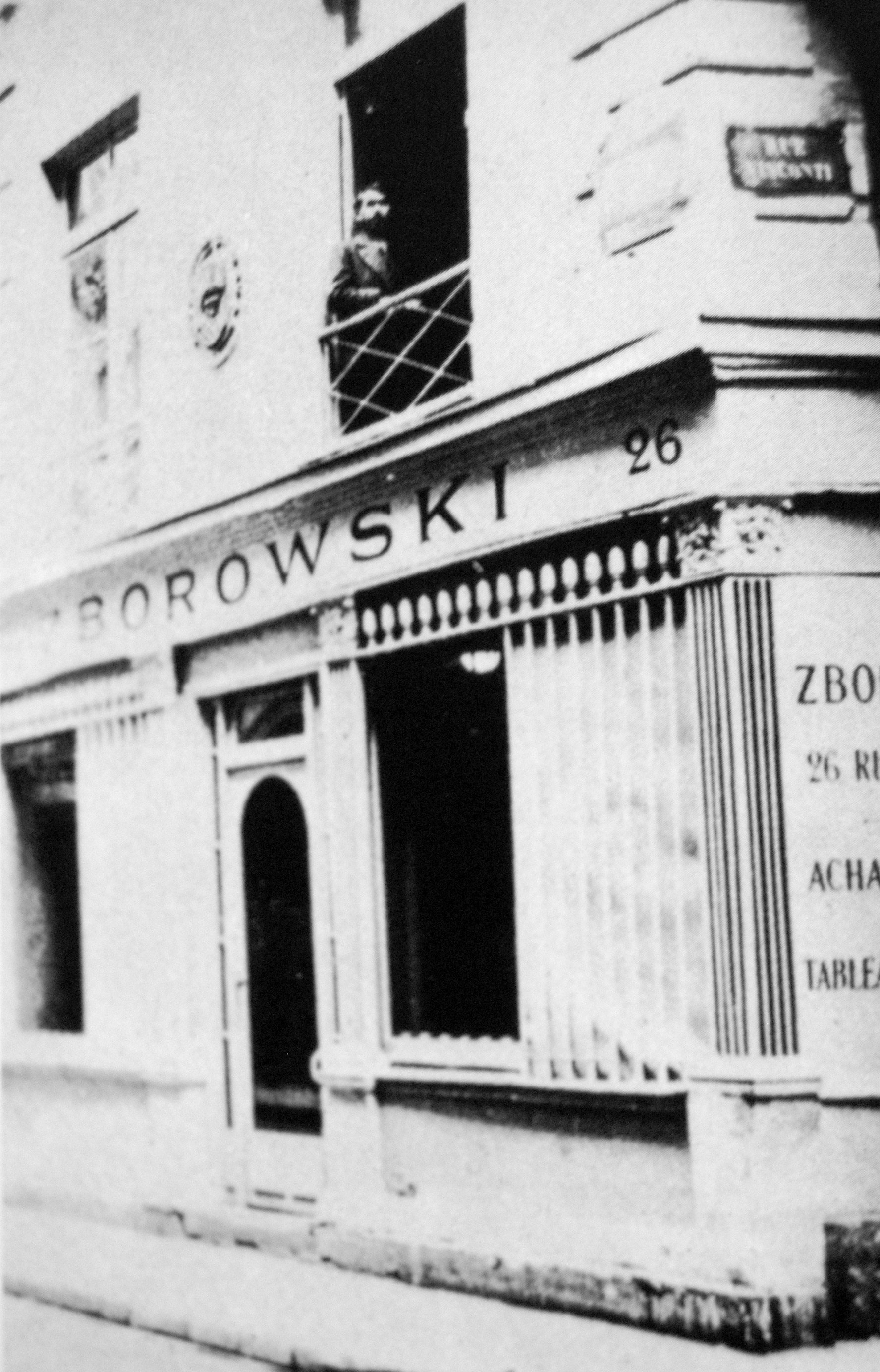 Leopold Zborowski at the window in his gallery at Montparnasse in the corner of Rue Visconti and rue de Seine in Paris, 1918